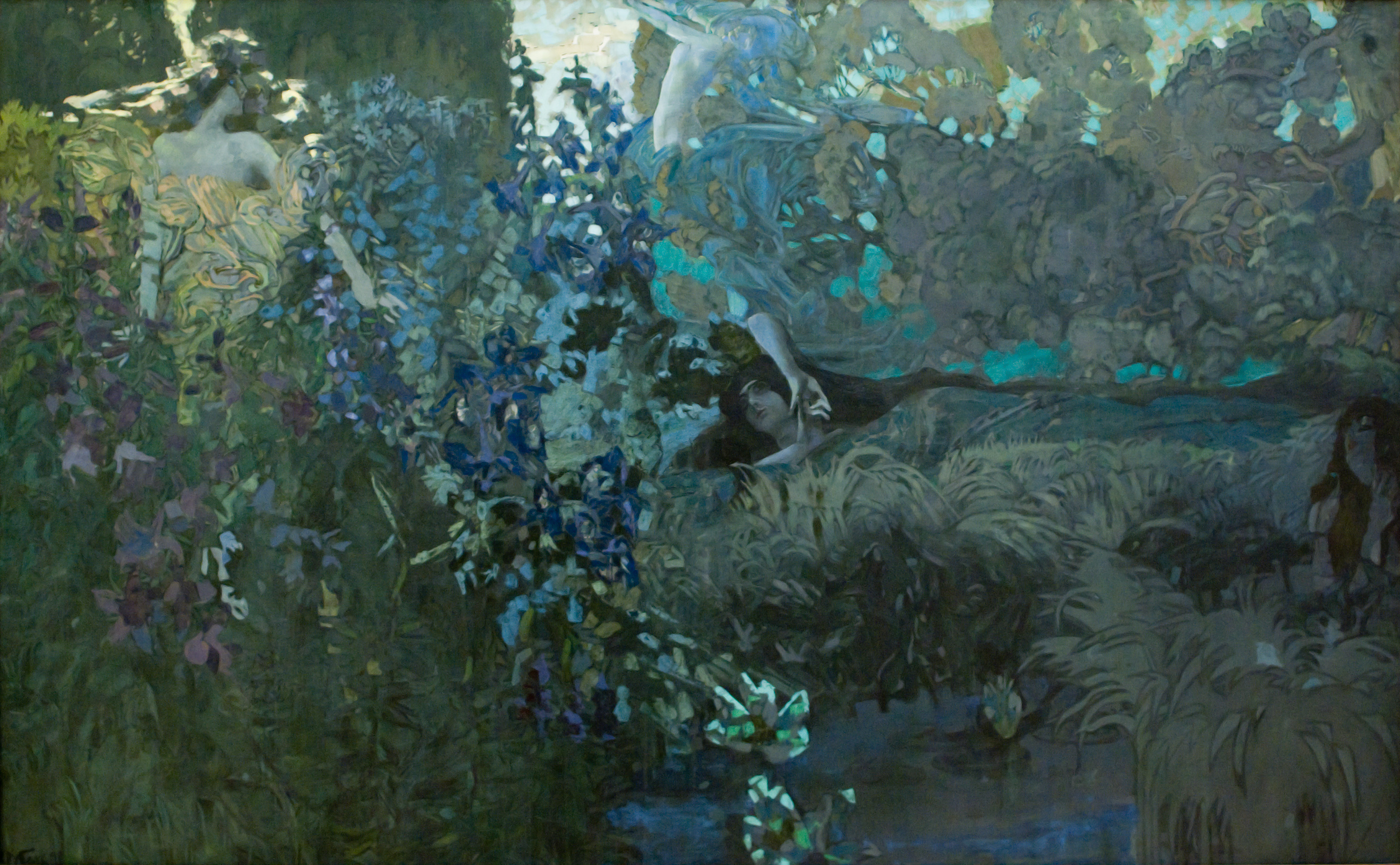 Morning